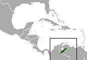 Wood Sprite Gracile Mouse Opossum (Gracilinanus dryas) range